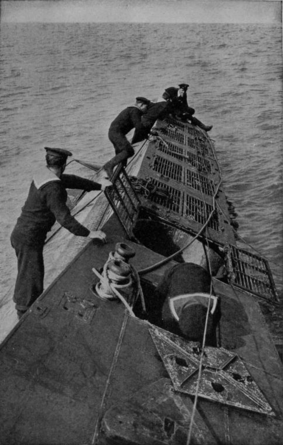 The German Imperial Navy submarine UC 5 during its capture in 1916. UC 5 was a German Type UC I U-boat and commissioned on 19 June 1915 at Hamburg. She served in the First World War under the command of Herbert Pustkuchen (June 1915 - December 1915) and Ulrich Mohrbutter (December 1915 - April 1916). She ran aground on Shipwash Shoal while on patrol on 27 April 1916 (51°59′N 1°38′E) and was scuttled, but the charges failed to explode. Her crew were captured by the British destroyer HMS Firedrake. British sailors and officers boarding the captured UC-5 German mine-laying submarine. The open grating shows one of the openings through which the mines are laid.